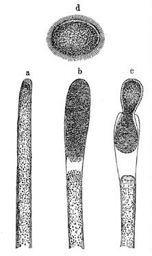 Vaucheria sessilis, release of zoospores